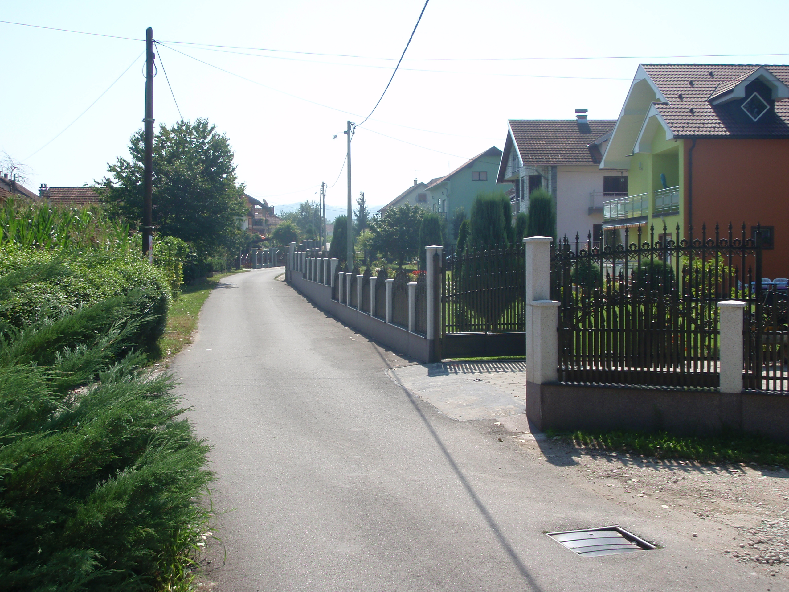 street